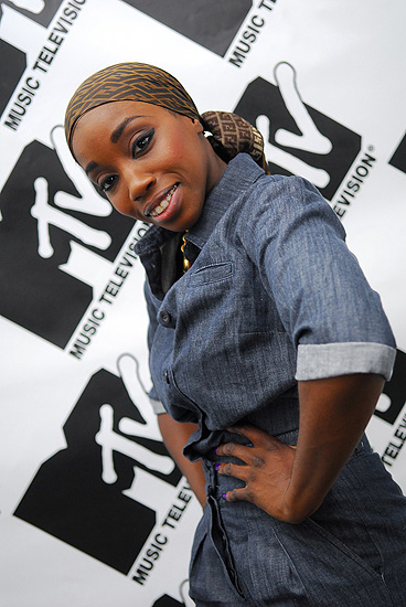 Estelle Swaray